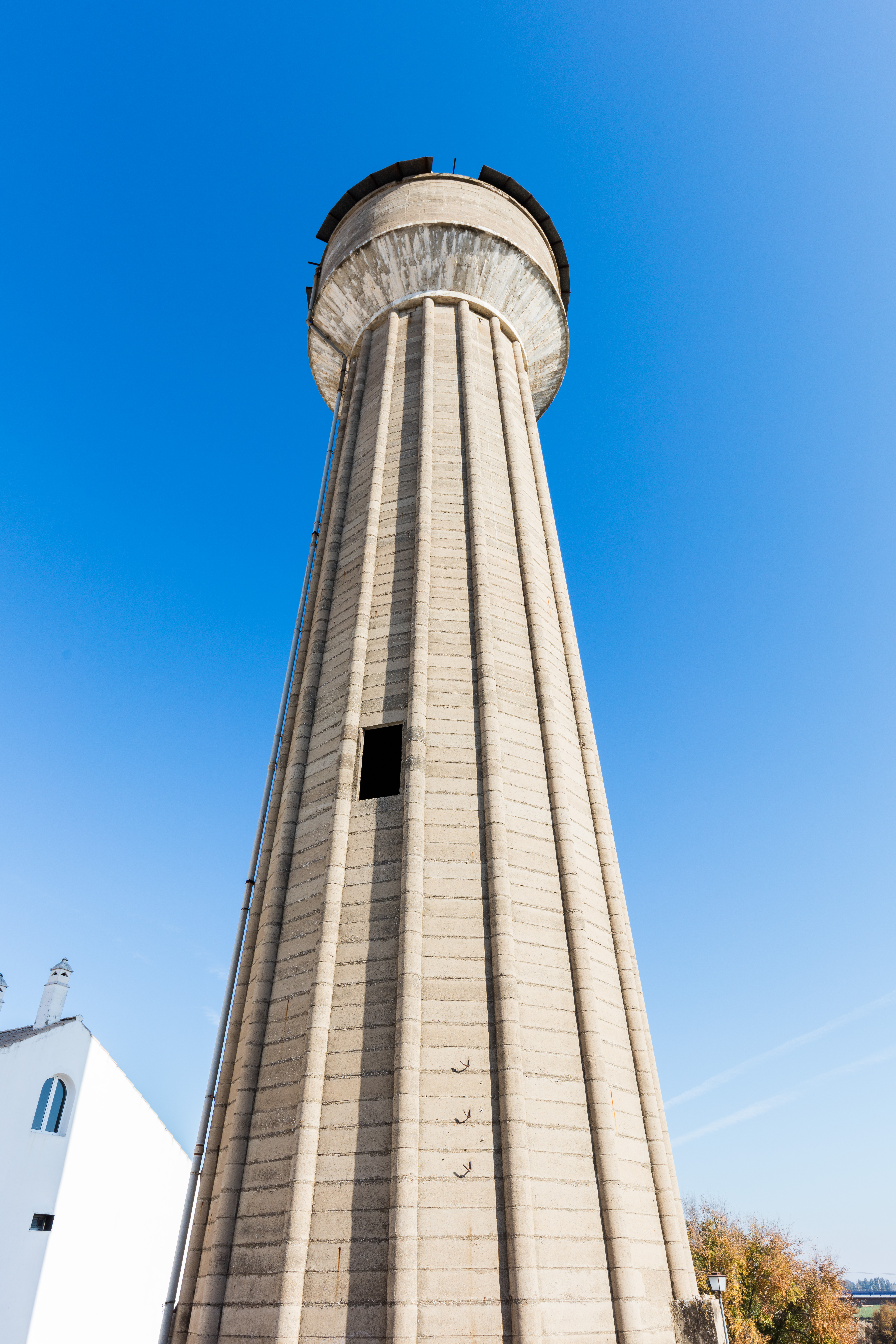 Water tank, Santiponce, Seville, Spain